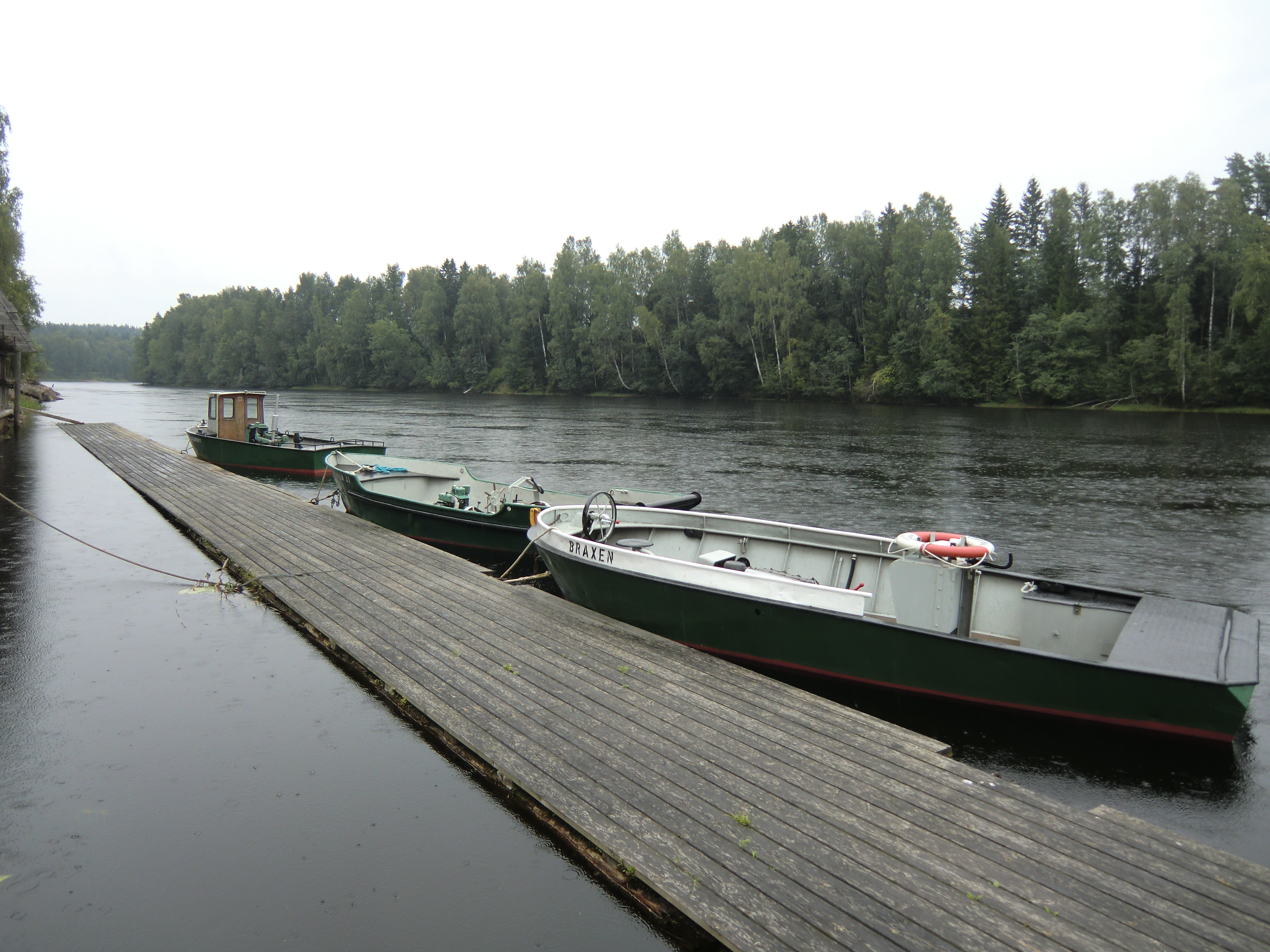 Log driving boats in Klarälven at Dyvelstens Flottningsmuseum, Värmland, Sweden.